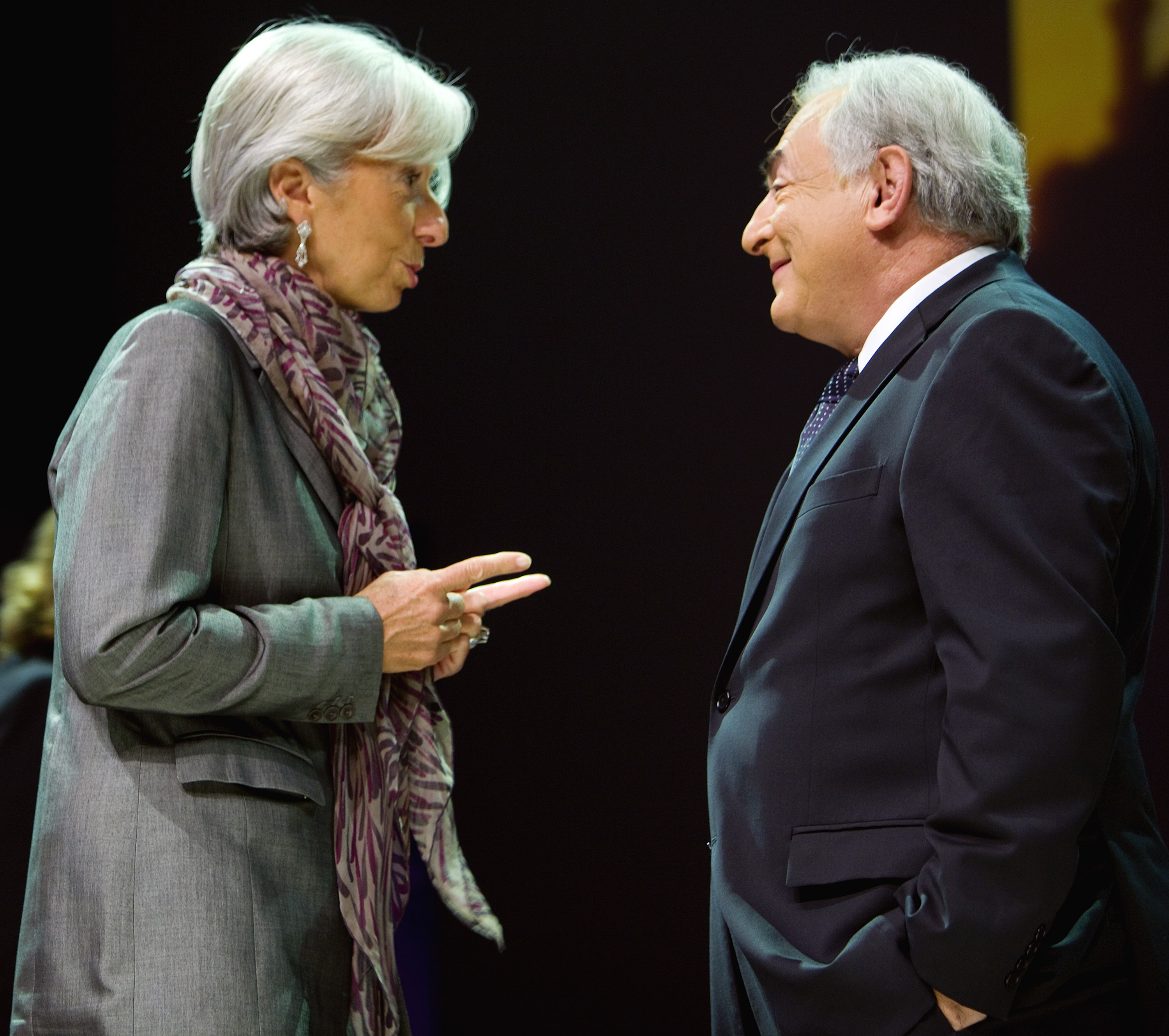 French Finance Minister Christine Lagarde (L) talks with International Monetary Fund's Managing Director Dominique Strauss-Kahn (R) prior to BBC's Nik Gowing hosting a live "Special World Debate" at the Istanbul Congress Center.